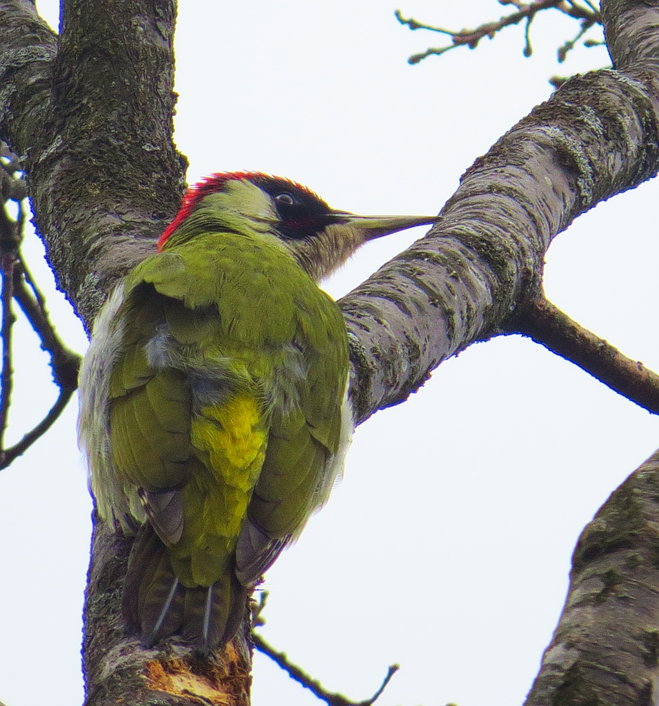 Scientific name: Picus viridis Original file: IMG_0568.TIF-single-new2